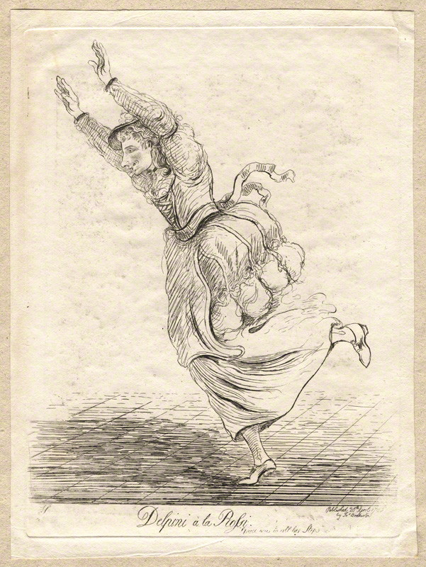 Portrait of Carlo Antonio Delpini (died 1828), Italian pantomimist and theatrical manager.